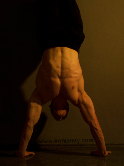 A photo of me doing a handstand.